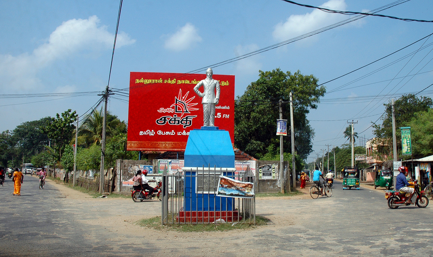 Bharathiyaar's statue in Nallur